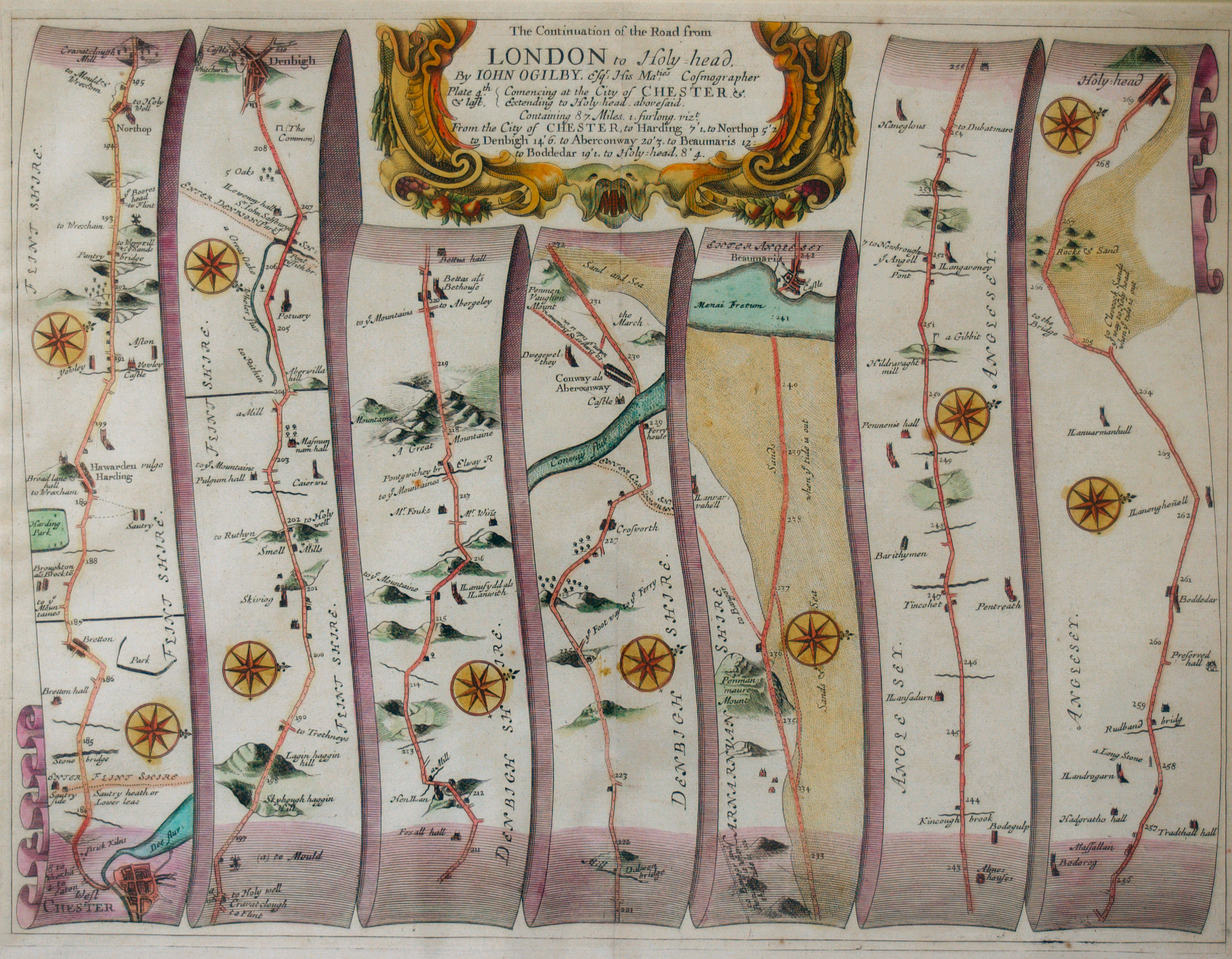 The Continuation of the Road from LONDON to Holyhead. Comencing at the City of CHESTER & Extending to Holyhead abovesaid.